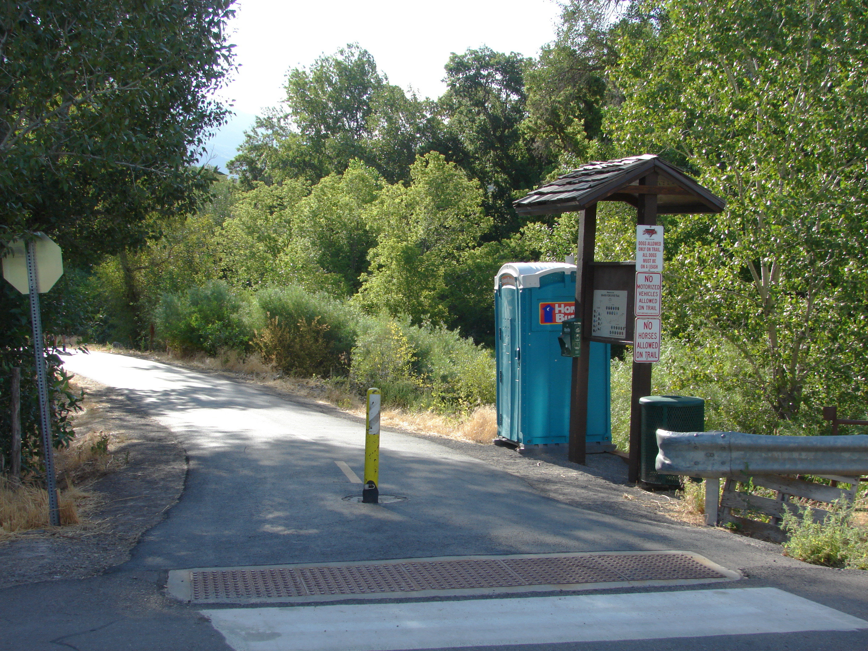 Looking east along the Spanish Fork River Trail from South 1100 East, July 2015. (South 1100 East is the only road that the trail crosses between Canyon View Park and South Main Street [SR-198].)